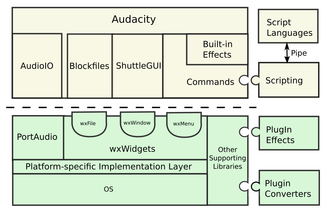 Layers in Audacity: the figure shows some layers and modules in Audacity. The diagram highlights three important classes within wxWidgets, each of which has a reflection in Audacity. We're building higher-level abstractions from related lower-level ones. For example, the BlockFile system is a reflection of and is built on wxWidgets' wxFiles. It might, at some stage, make sense to split out BlockFiles, ShuttleGUI, and command handling into an intermediate library in their own right. This would encourage us to make them more general. Lower down in the diagram is a narrow strip for "Platform Specific Implementation Layers." Both wxWidgets and PortAudio are OS abstraction layers. Both contain conditional code that chooses between different implementations depending on the target platform.